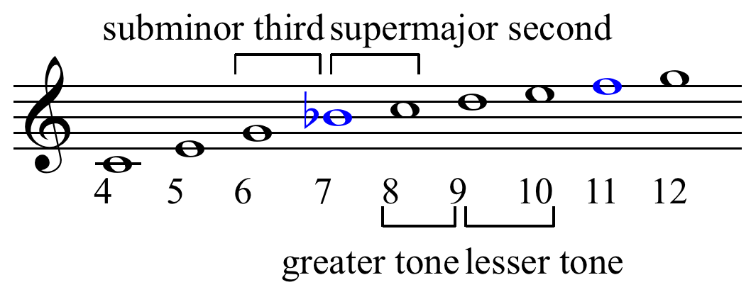 Origin of seconds and thirds in harmonic series. Created by Hyacinth (talk) 18:11, 19 March 2011 (UTC) using Sibelius 5. The blue notes (B and F , 7 and 11) are noticeably out of tune[1]